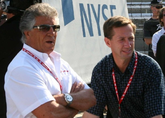 en:2007 Indianapolis 500 driver John Andretti (right) and his legendary uncle Mario Andretti (left) on pole qualifying day